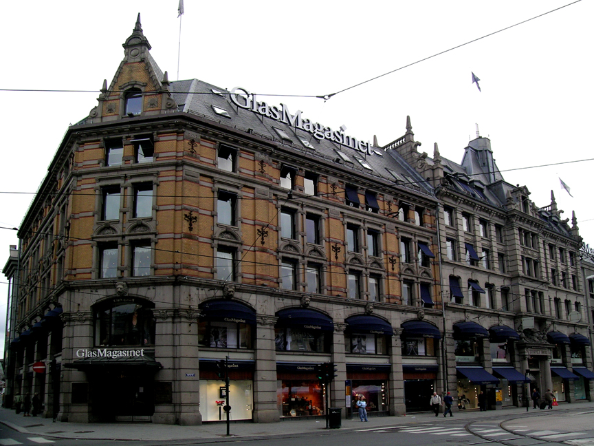 Glassmagasinet, Stortorvet, Oslo, Norway. Oldest part of Glassmagasinet in the foreground; built 1898. Architects: Ove Ekman and Einar Smith. Acquired by Glassmagasinet 1913.